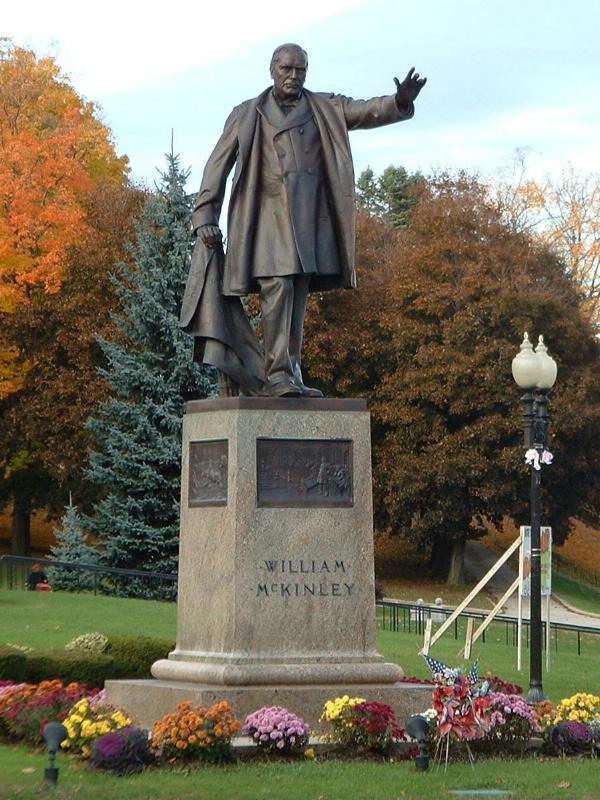 The statue of William McKinley at Town Square, intersection of Columbia & Maple Streets, Adams, MA. The base is surrounded with three scenes of his actions, in the Civil War, in Congress, and as President, with the fourth side bearing a quote from the Pan-American Exposition: "Let us remember that our interest is in concord not conflict, and that our real eminence rests in the victories of peace, not of war." The statue was installed in 1903.